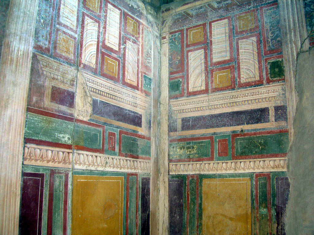 Fresco on a wall in Villa di Arianna at the ancient Stabiae, the modern Castellammare di Stabia in Campania, Italy.